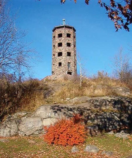 Enger Tower in Duluth, Minnesota